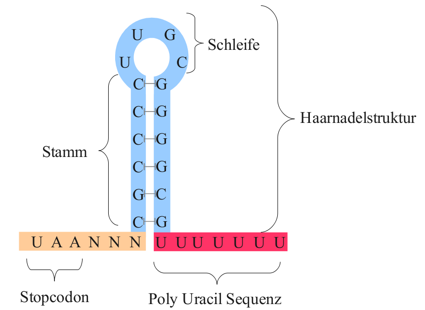 Structure of an intrinsic terminator